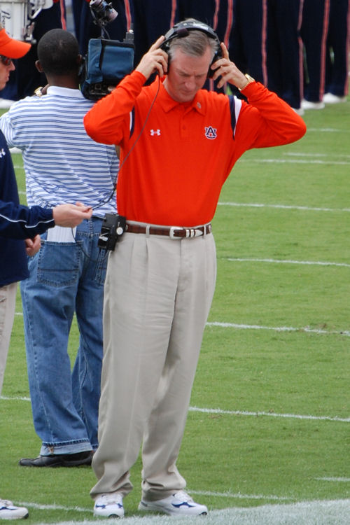 Tommy Tuberville, head coach of the Auburn University Tigers college football team, gets outfitted with his headset before the 2007 Vanderbilt game.